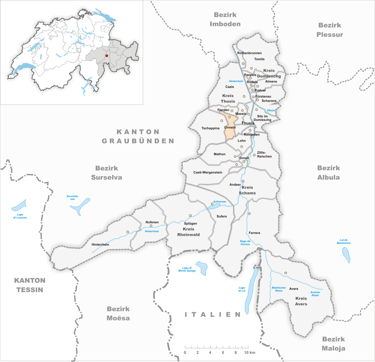 Municipality Urmein